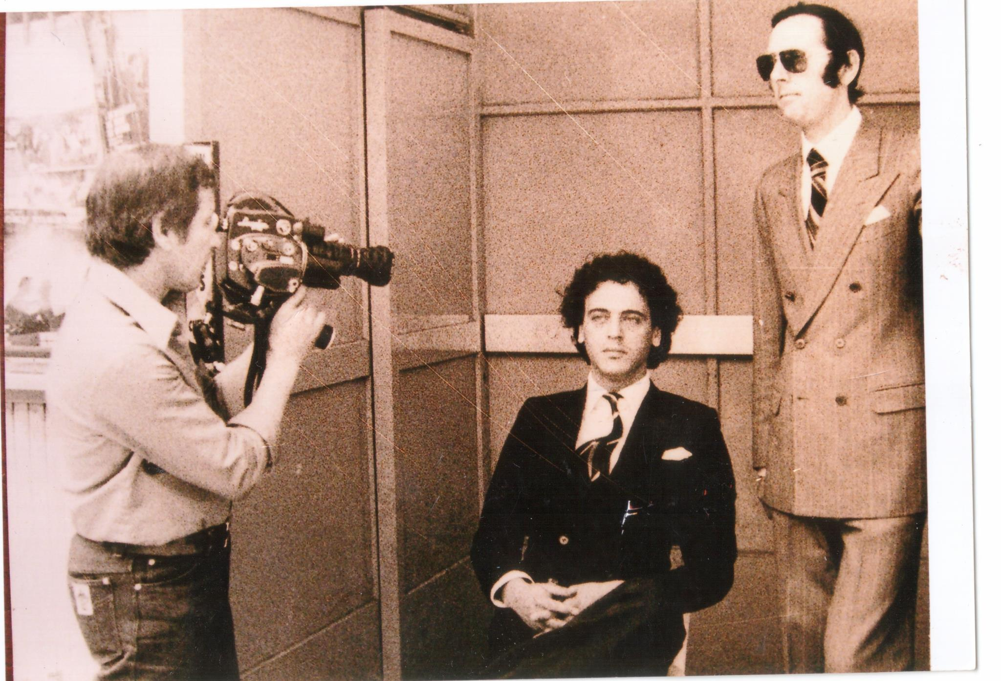 Photo of Orlando Portento with Italian director Marco Paolo Pavese